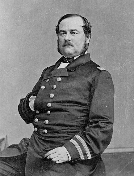 Photo #: NH 60824 Lieutenant Commander William N. Jeffers, USN Photograph taken in 1862-1863. The original print was mounted on a carte de visite, with Jeffers' signature below the image. U.S. Naval Historical Center Photograph.